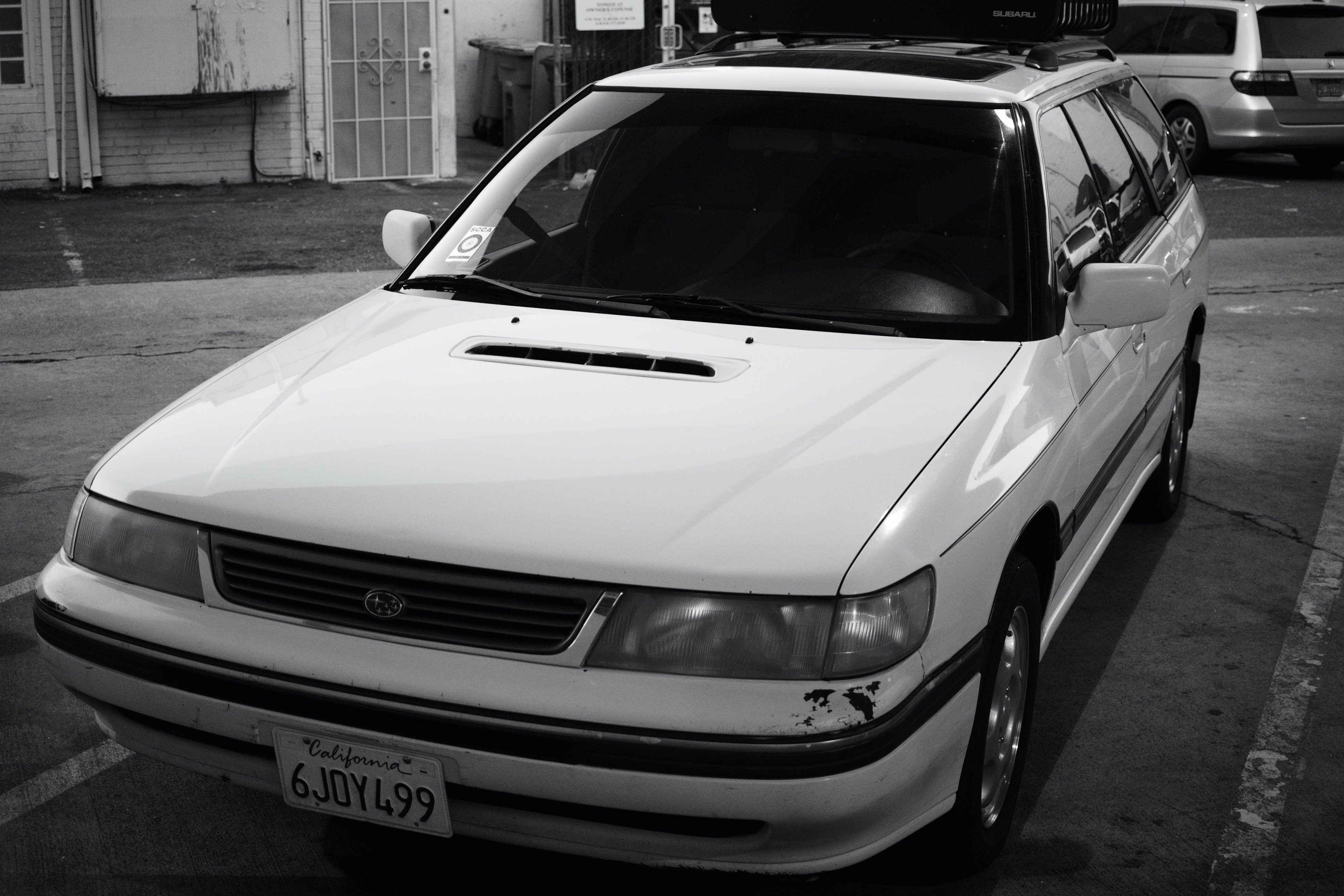 Fairly rare sight, assuming the hood isn't a replacement.